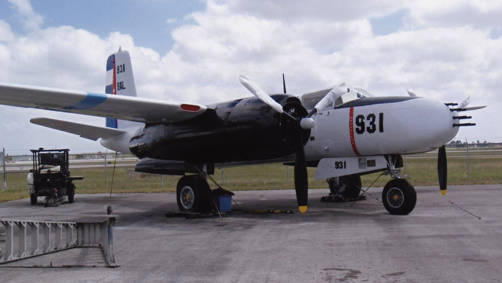 Douglas A-26C Invader 44-35440 wearing false Cuban AF markings at the Wings over Miami air museum at Tamiami Airport